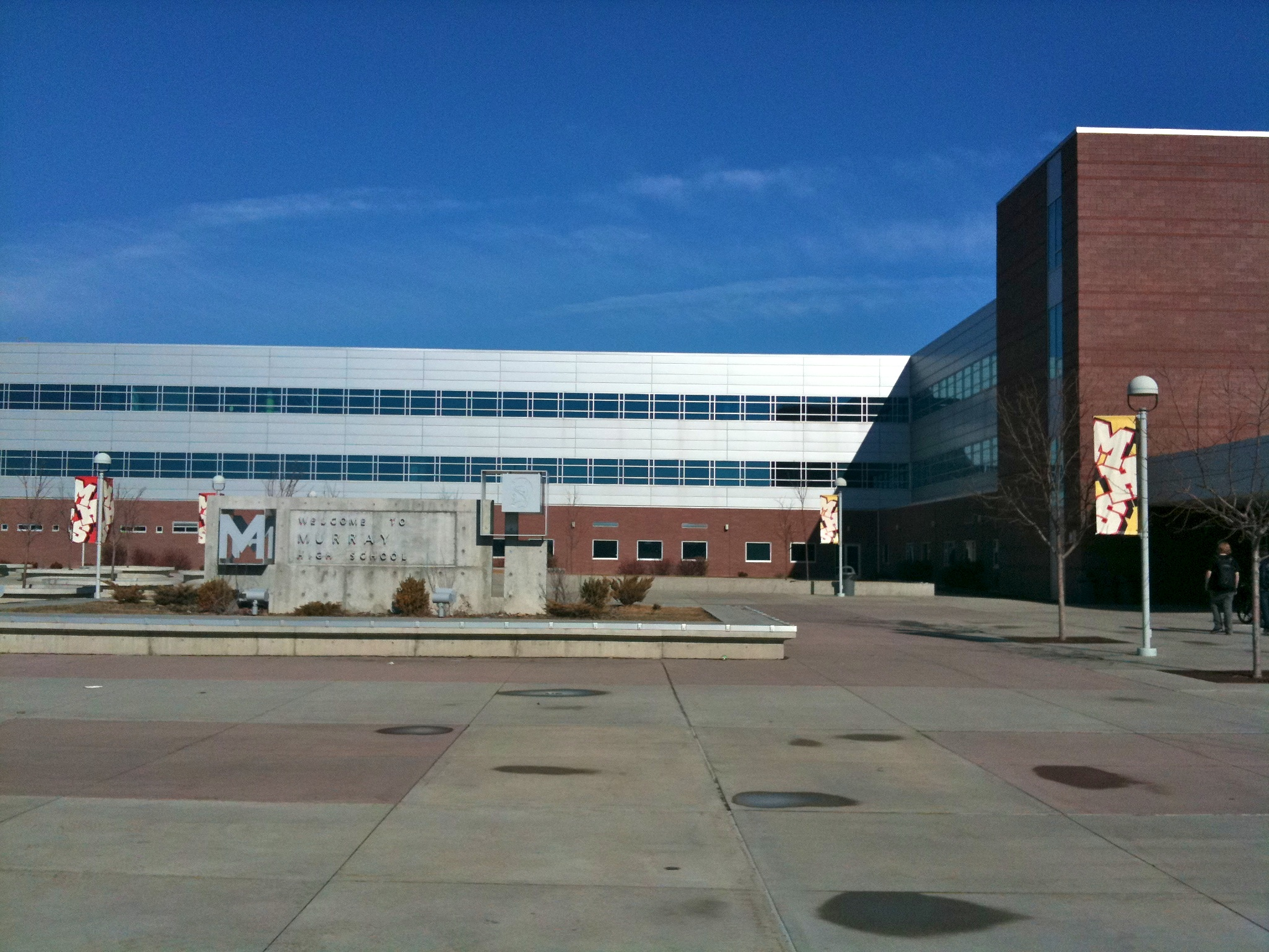 Picture of Murray High School Utah plaza